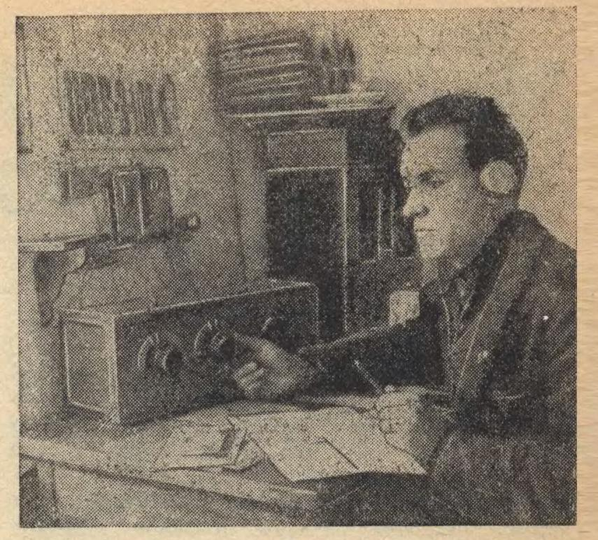 Soviet SWL A. Kozlow (URS3-108-B) with his short wave receiver KUB-4. Broadcast receiver SI-235 on foreground. Borisoglebsk city, 1941.